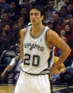 Manu Ginobili playing for the San Antonio Spurs